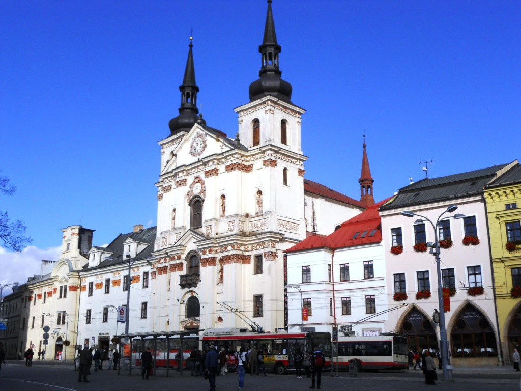 Jihlava, St Ignace church